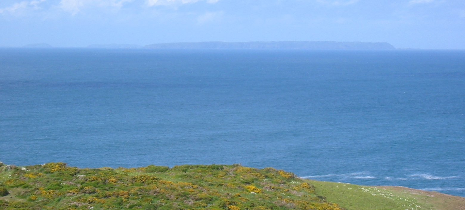 Channel Islands: looking north from Jersey. From left to right: Jethou, Herm, Sark Photo taken by Man vyi with Canon PowerShot A40 on 22/5/2005